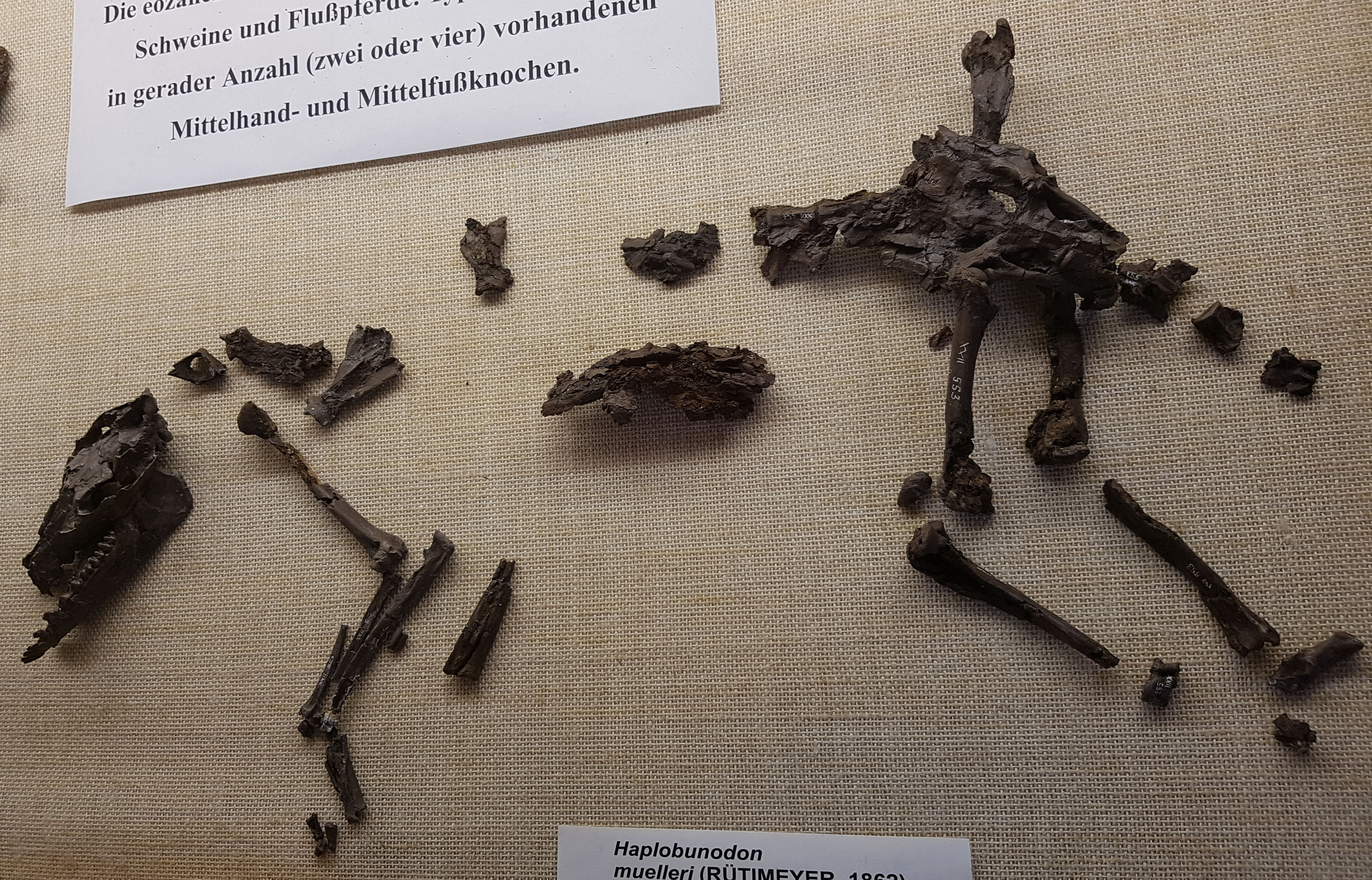 skeleton of Haplobunodon from the Geiseltal, Germany, Middle Eocene; took the picture in the Geiseltalmuseum, Halle (Saxony-Anhalt)